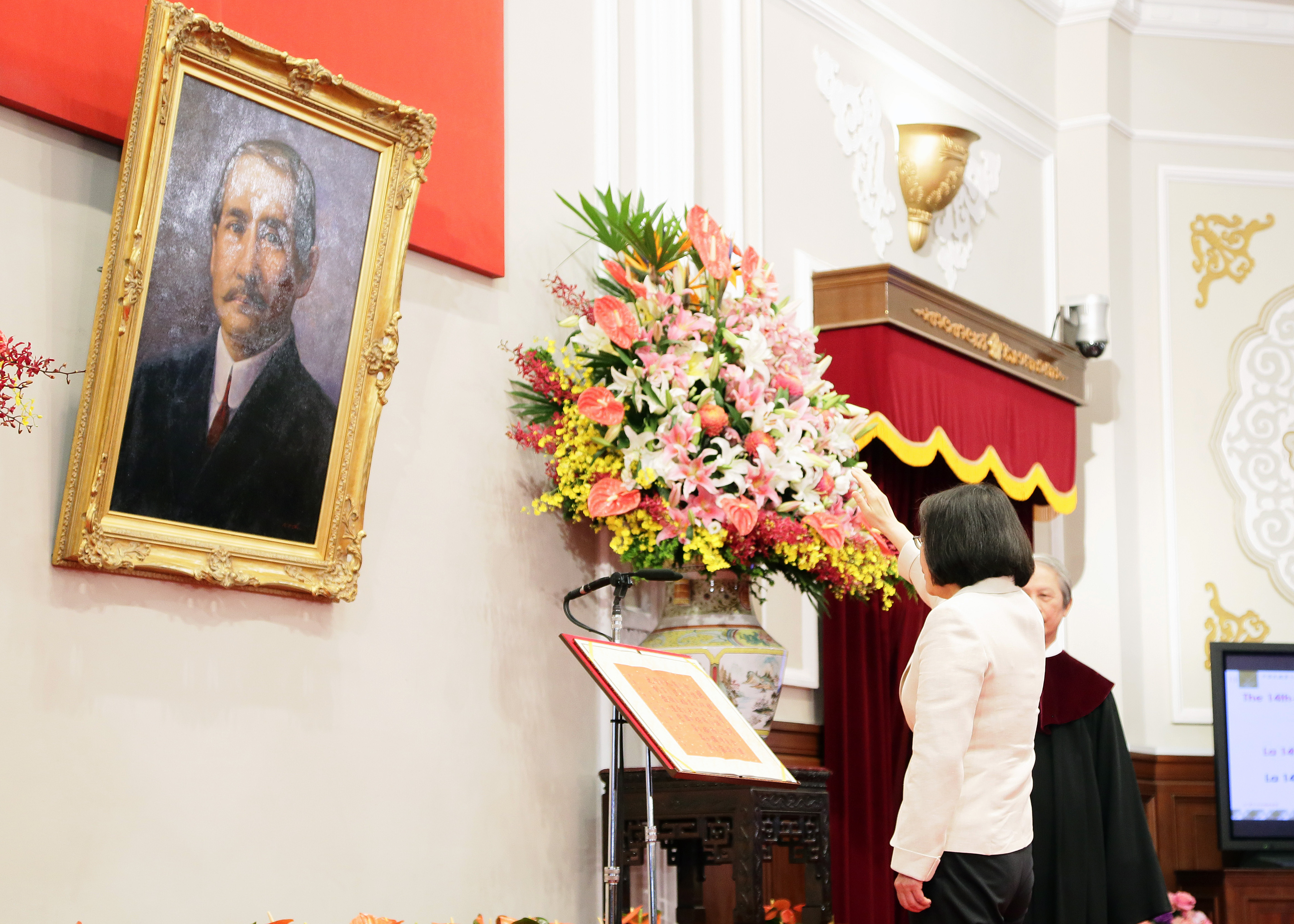 TAIWAN’s 14th-term President Tsai Ing-wen is officially sworn in at the inaugural ceremony on May 20, 2016.